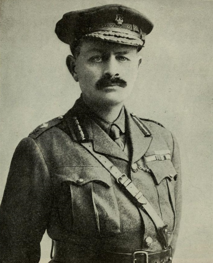 Picture of Julian Byng, 1st Viscount Byng of Vimy